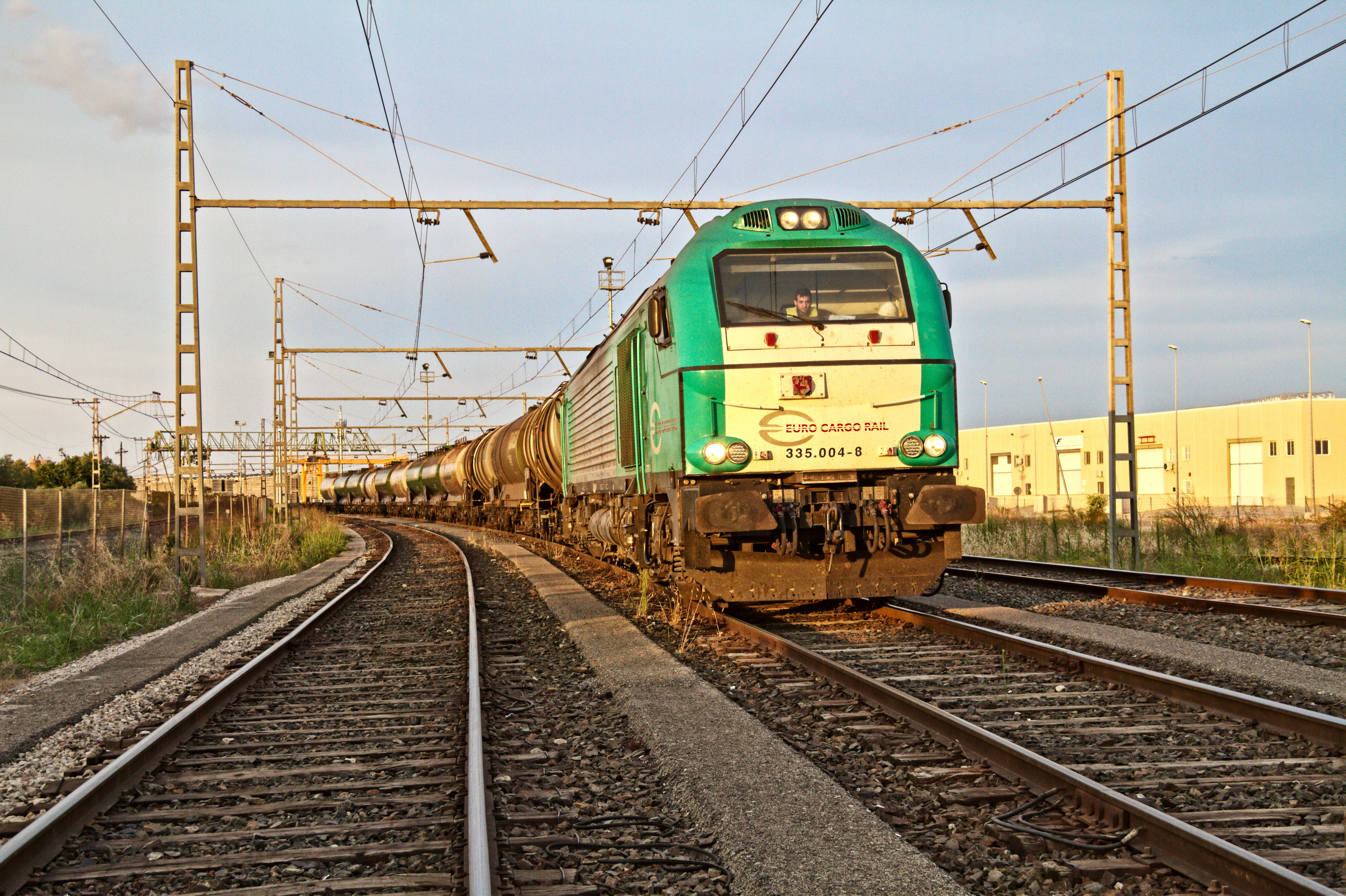 After carrying the tank wagons of the Repsol factory, three more tanks were added, then to leave the base of Constantí, when it was already almost dark. Greetings to the kind machinist.